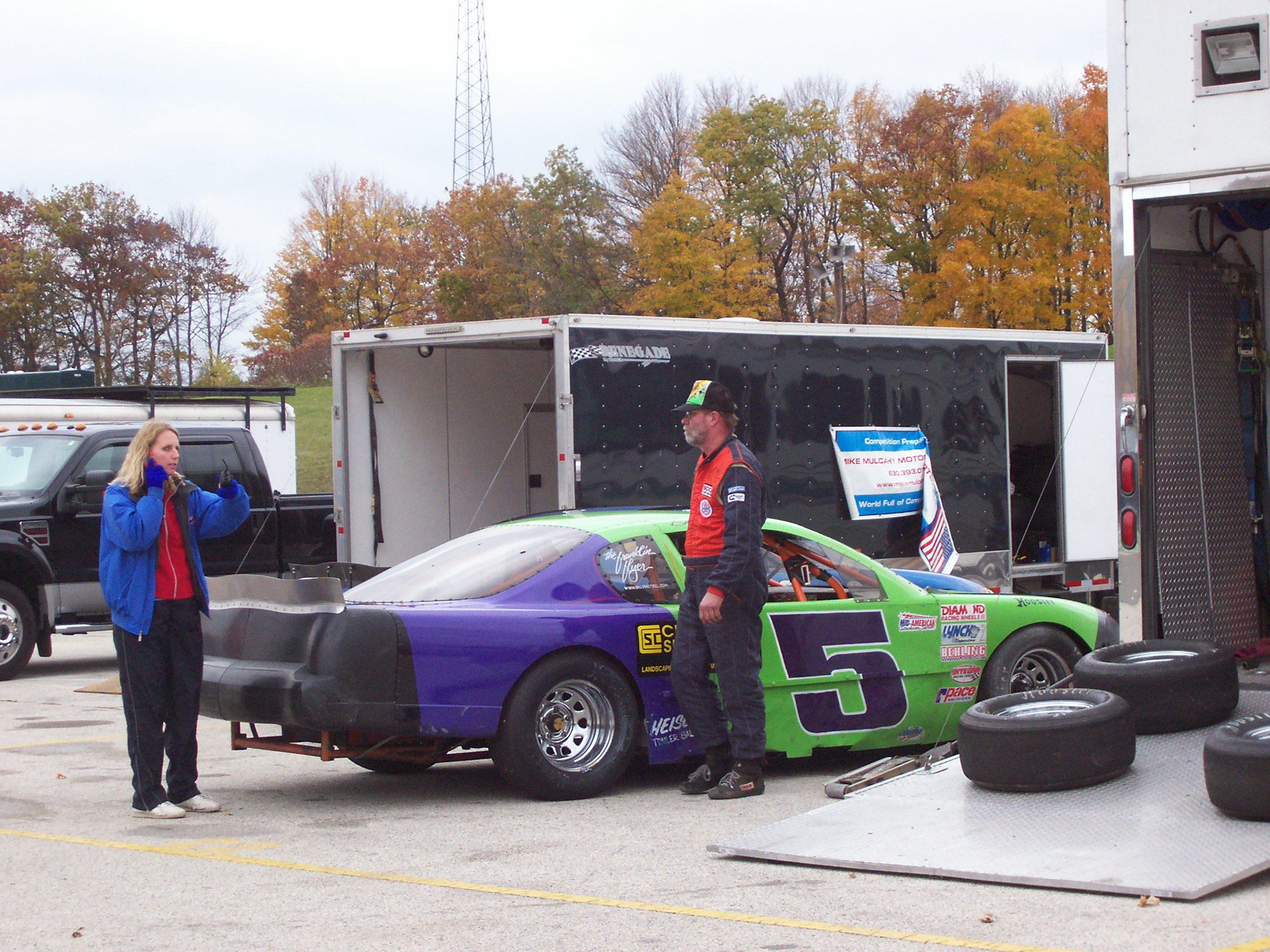 The Mid-American Stock Car Series car of Bill Prietzel in the pits at Road America. He is walking in front of the car.